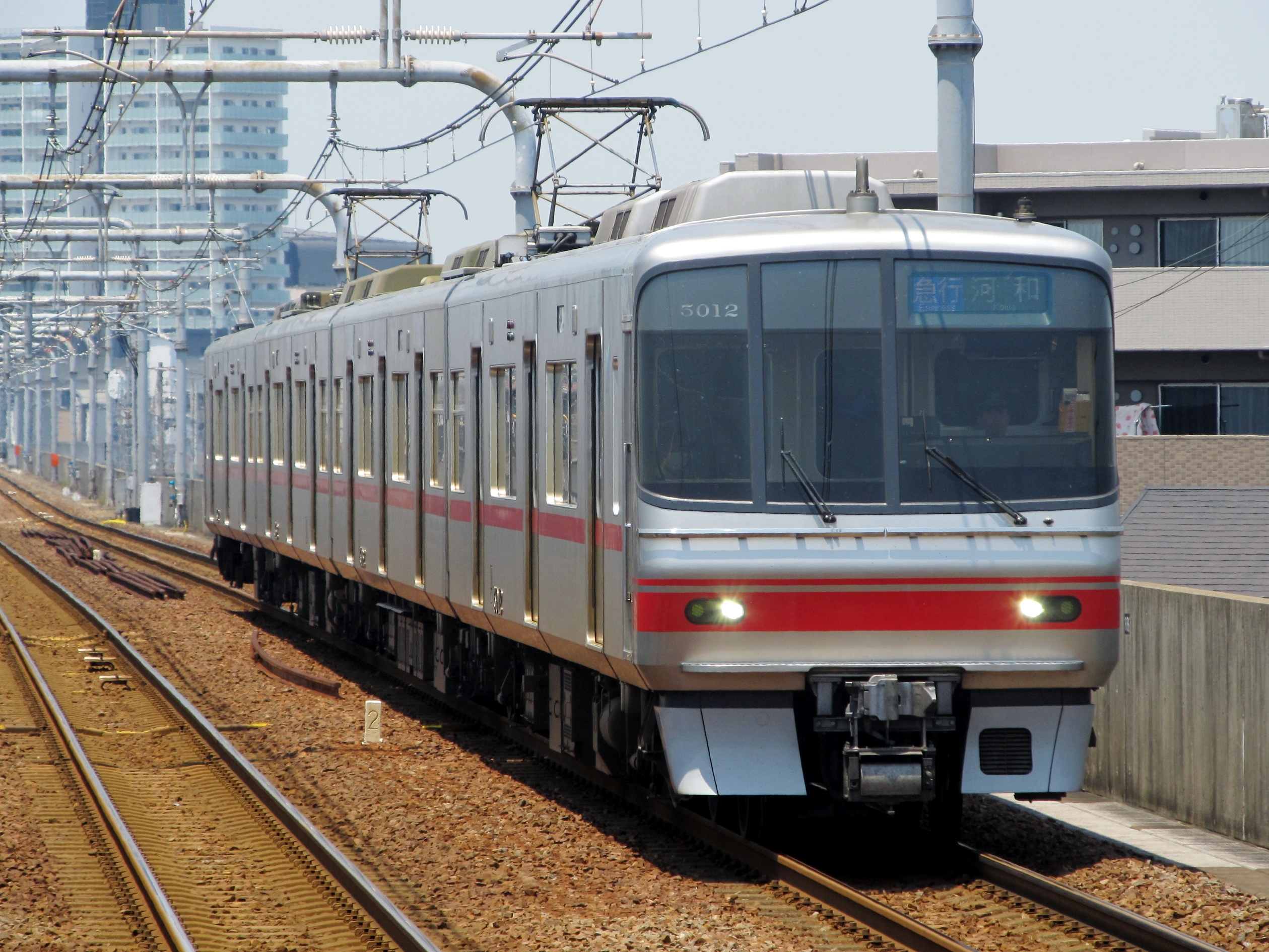 Meitetsu 5000 series. Express bound for Kōwa.